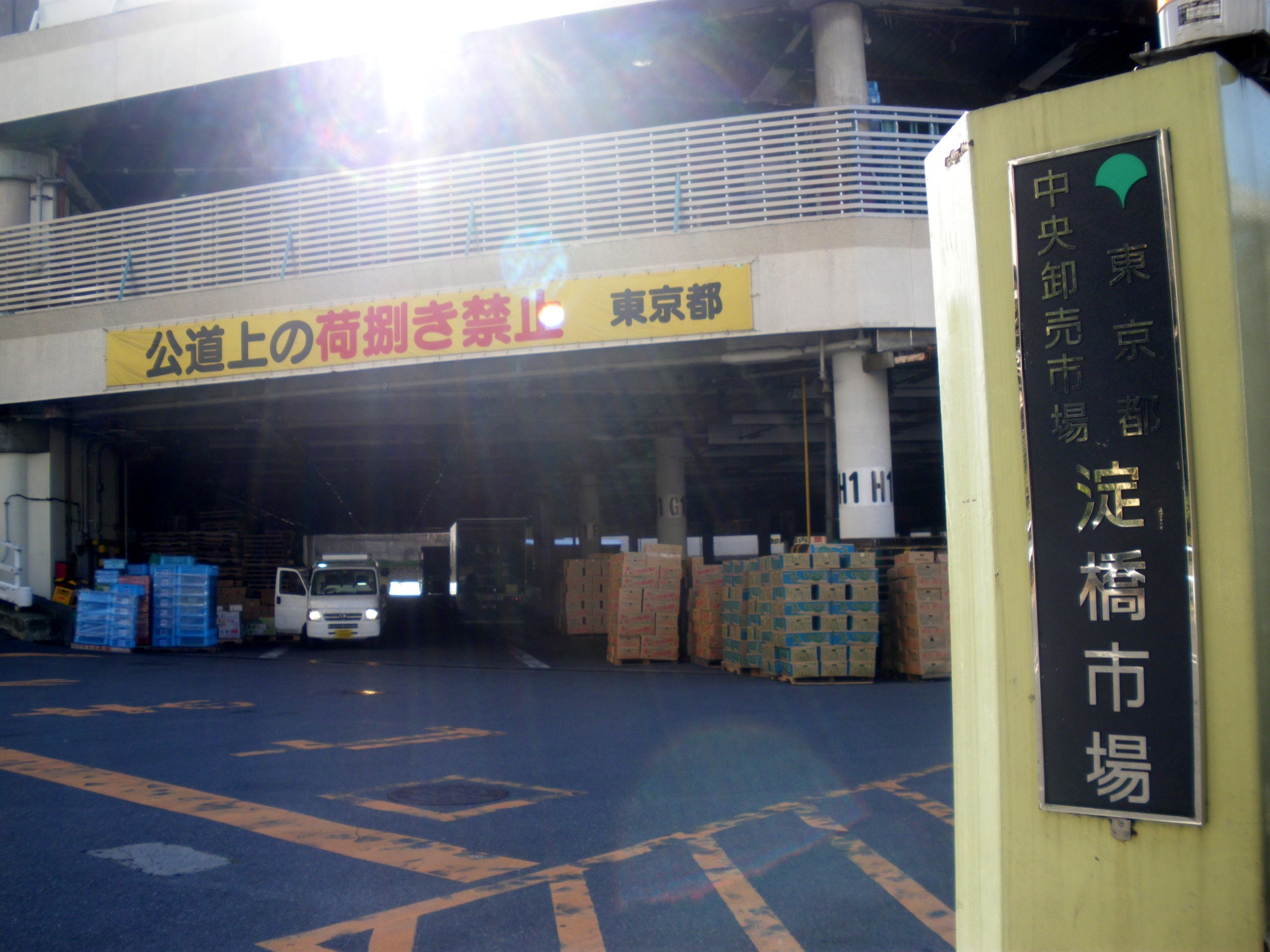 A photo of Yodobashi Wholesale Market ,a wholesale market in Tokyo.Kitashinjuku,Shinjuku-ku,Tokyo,Japan.